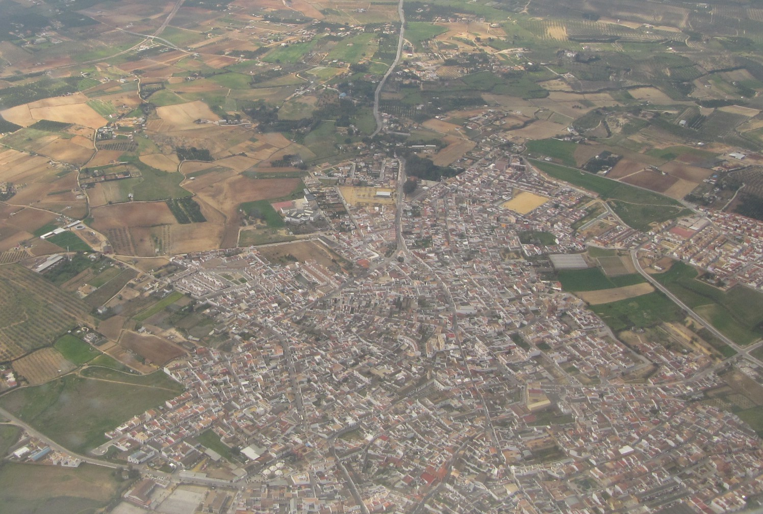 Olivares